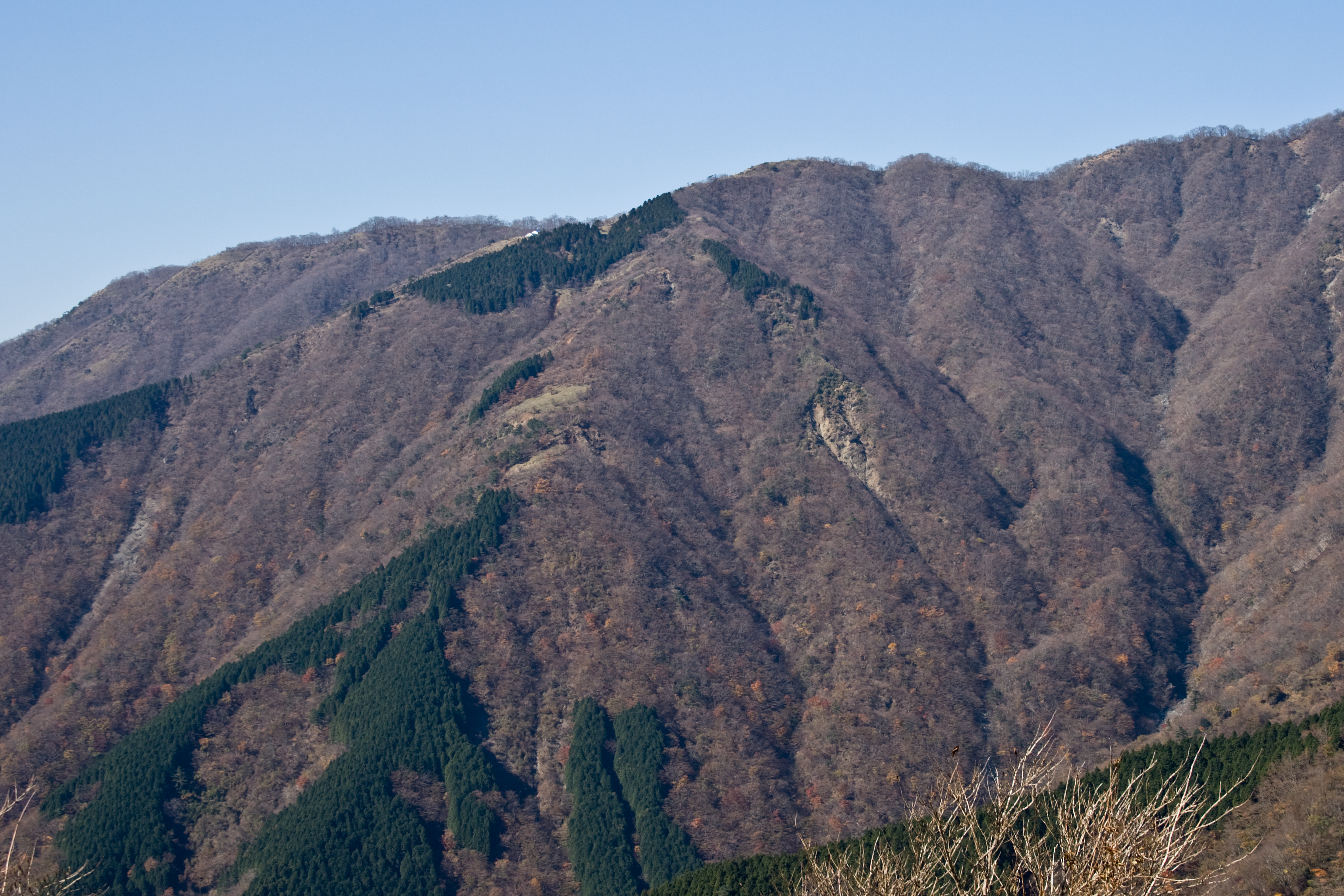 Mt.Hanadate, from Mt.Karasuo, Tanzawa, Kanagawa, Japan.